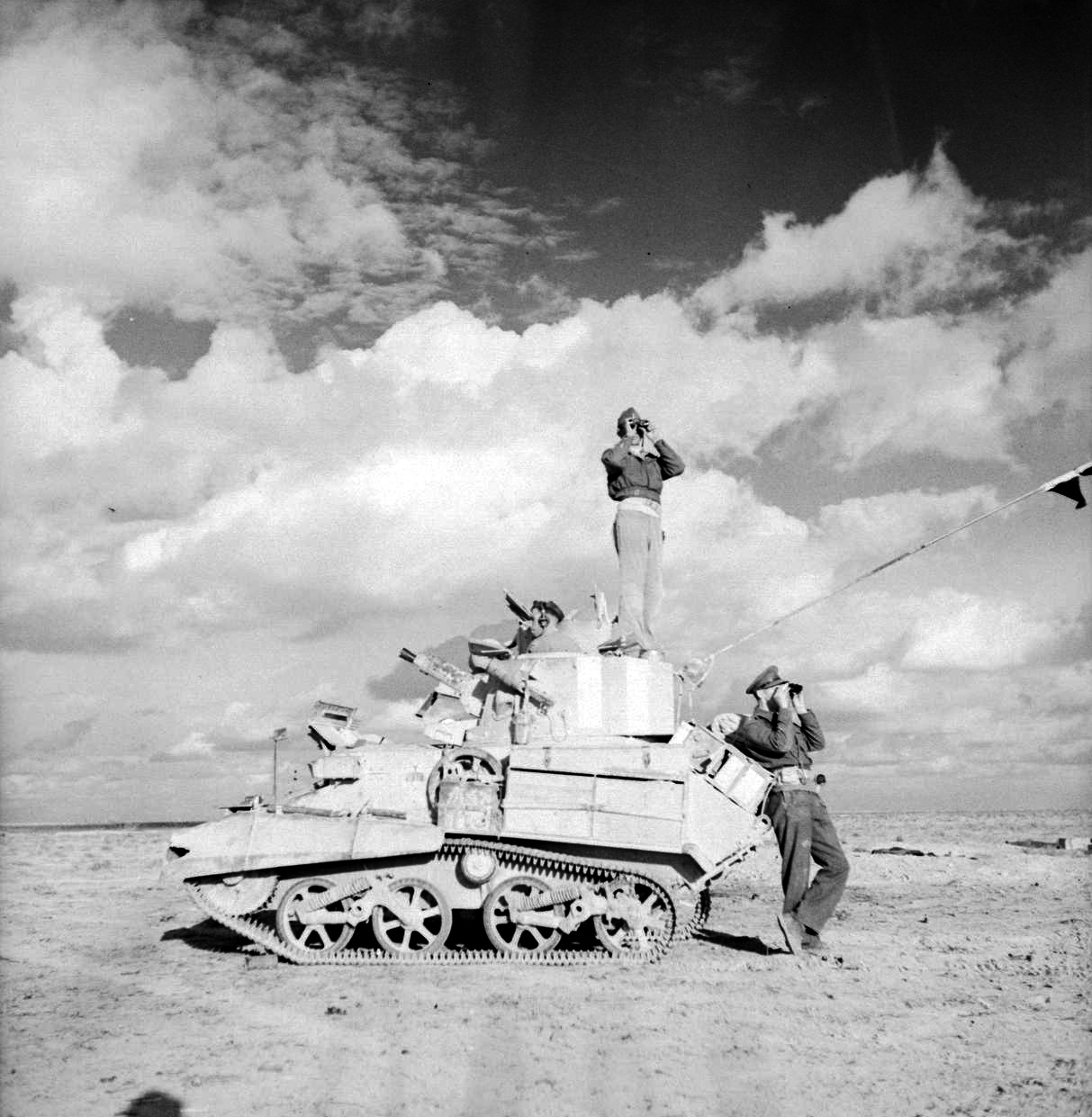 The British Army in North Africa 1941 The crew of a Light Tank Mk VIB looking for any movement of the enemy near Tobruk, 28 November 1941.